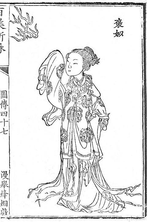 Bao Si, from the 18th century work Hundred Poems of Beautiful Women (Bai Mei Xin Yong Tu Zhuan 百美新詠圖傳) by Yan Xiyuan (颜希源). Woodblock print of drawing by Wang Hui 王翙